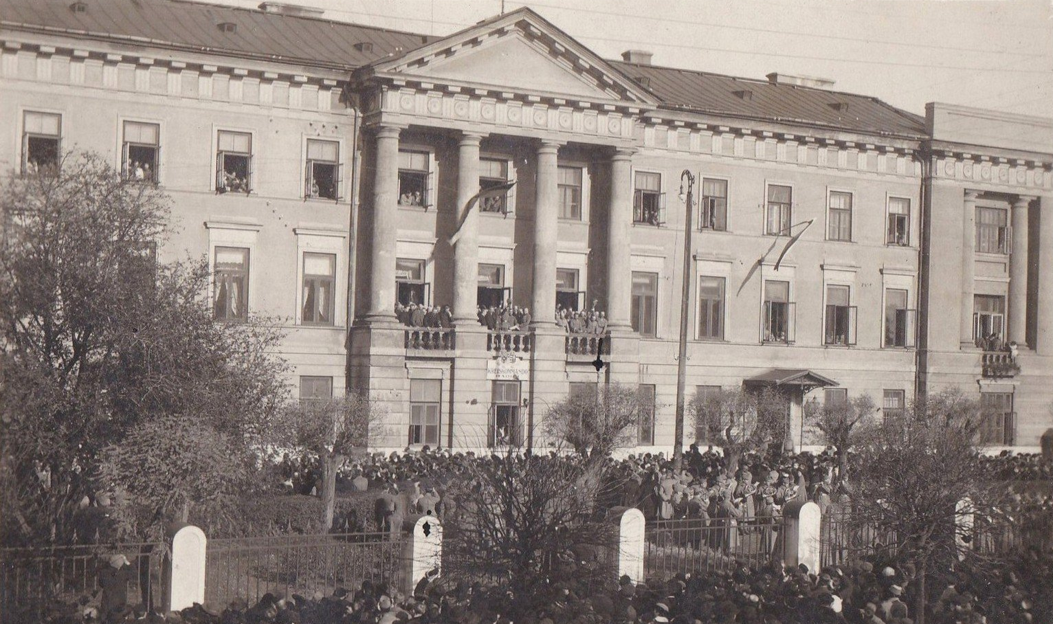 Announcement of the Act of 5th November in Radom, Poland